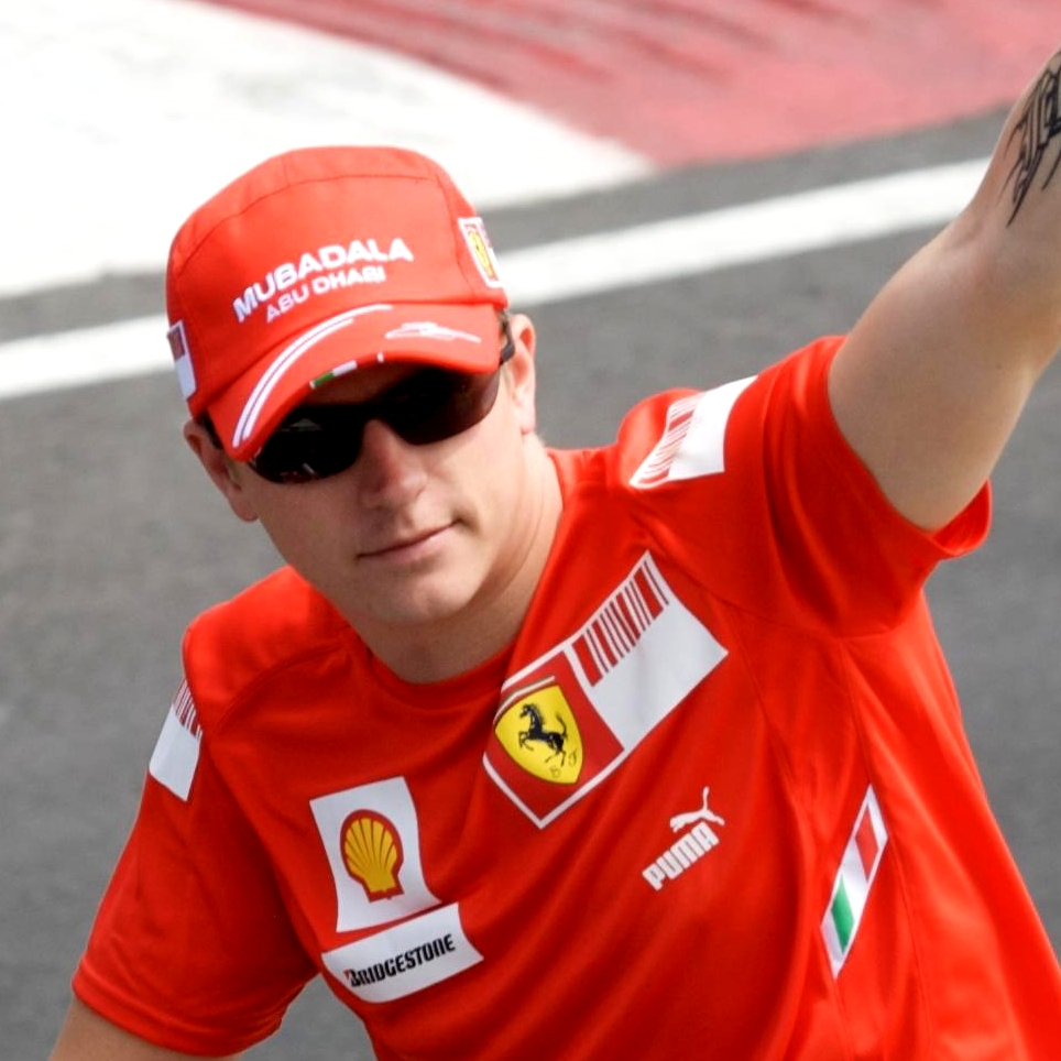 Kimi Räikkönen at the 2008 Canadian Grand Prix.